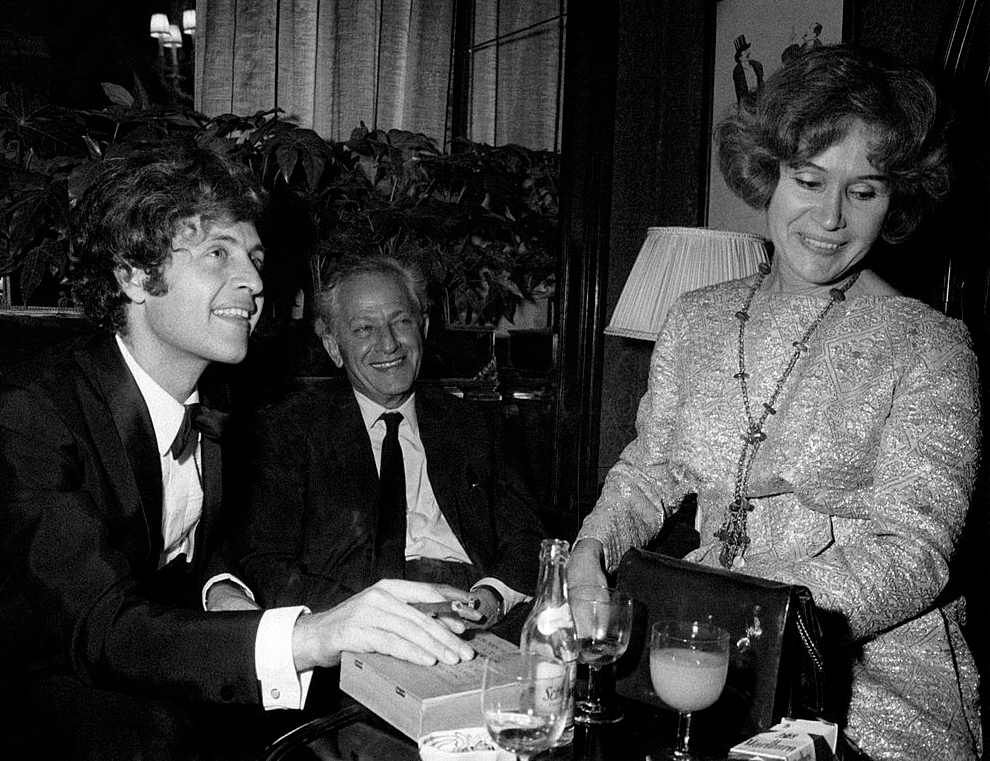 American-born French singer Joe Dassin smoking a cigar at the table of a bar. Beside him, his father, American director Jules Dassin and his mother Beatrice Launer. Paris, 1970.